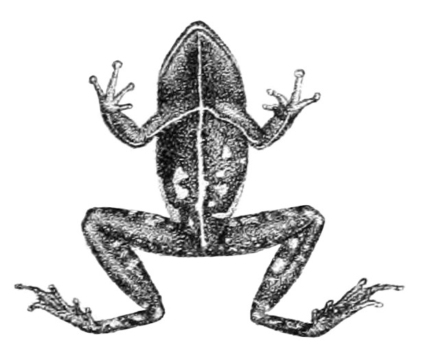 Ixalus hypomelas = Pseudophilautus hypomelas - lower view